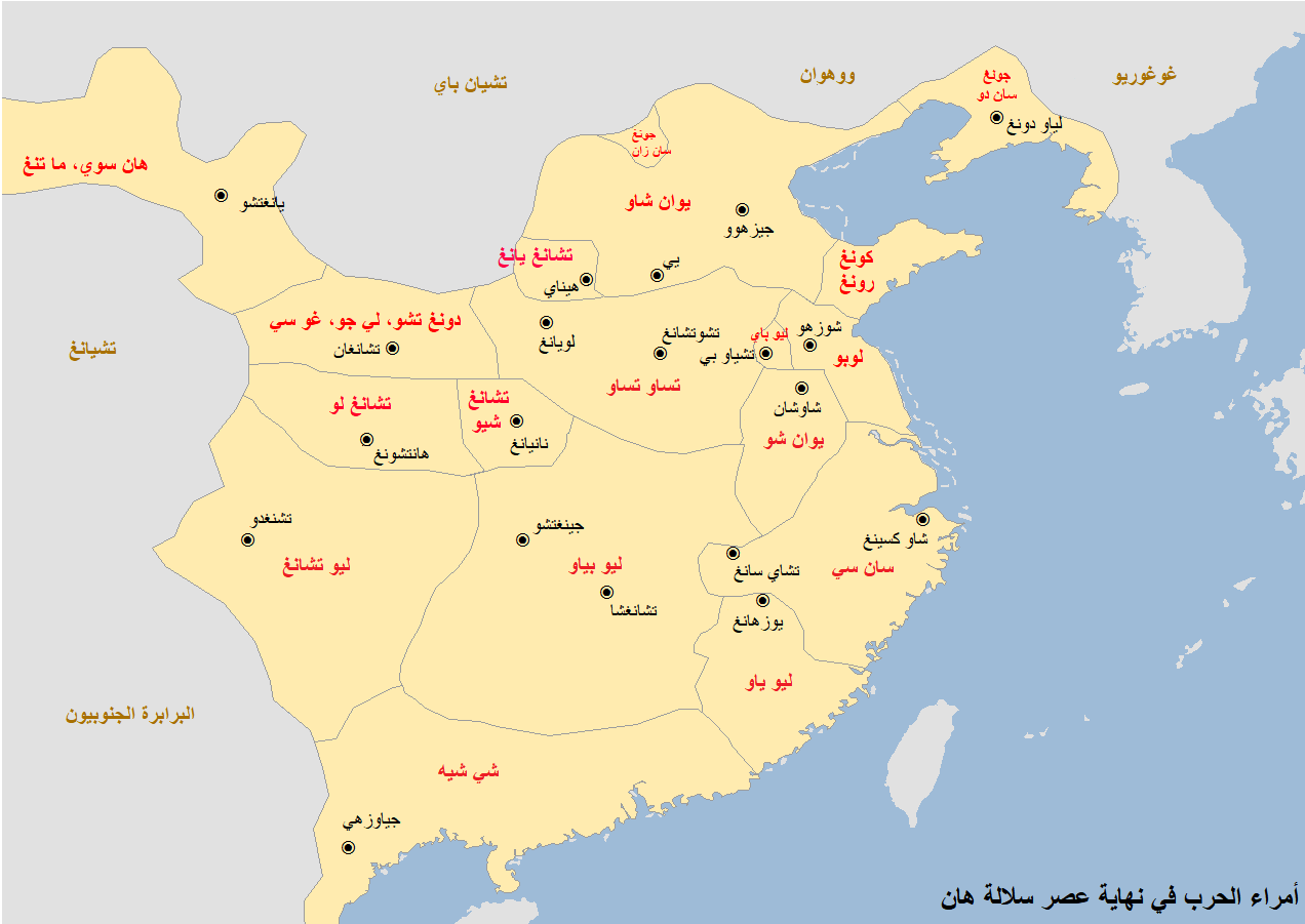 Map showing the major warlords in China in the 190s, before the definitive end of the Han dynasty in 220.